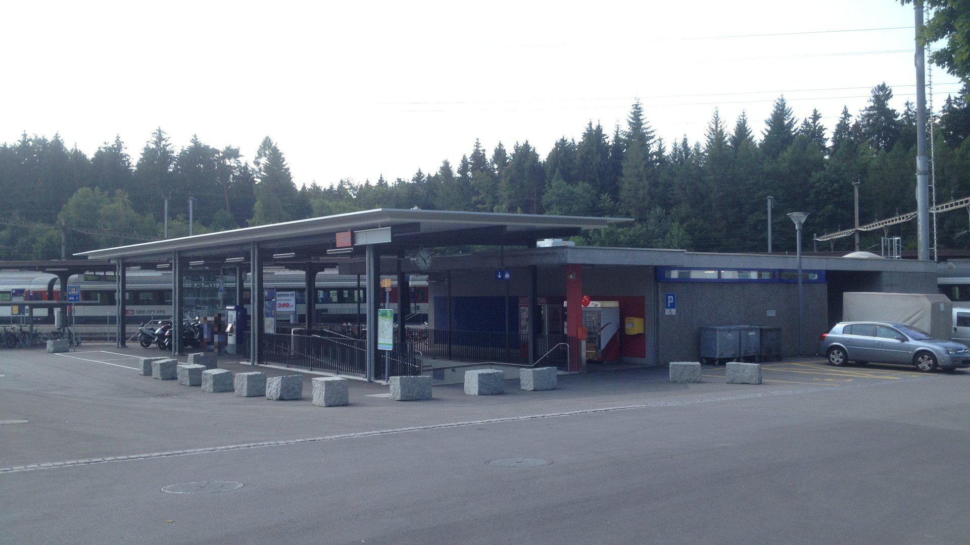 Othmarsingen railway station in Othmarsingen, Switzerland.